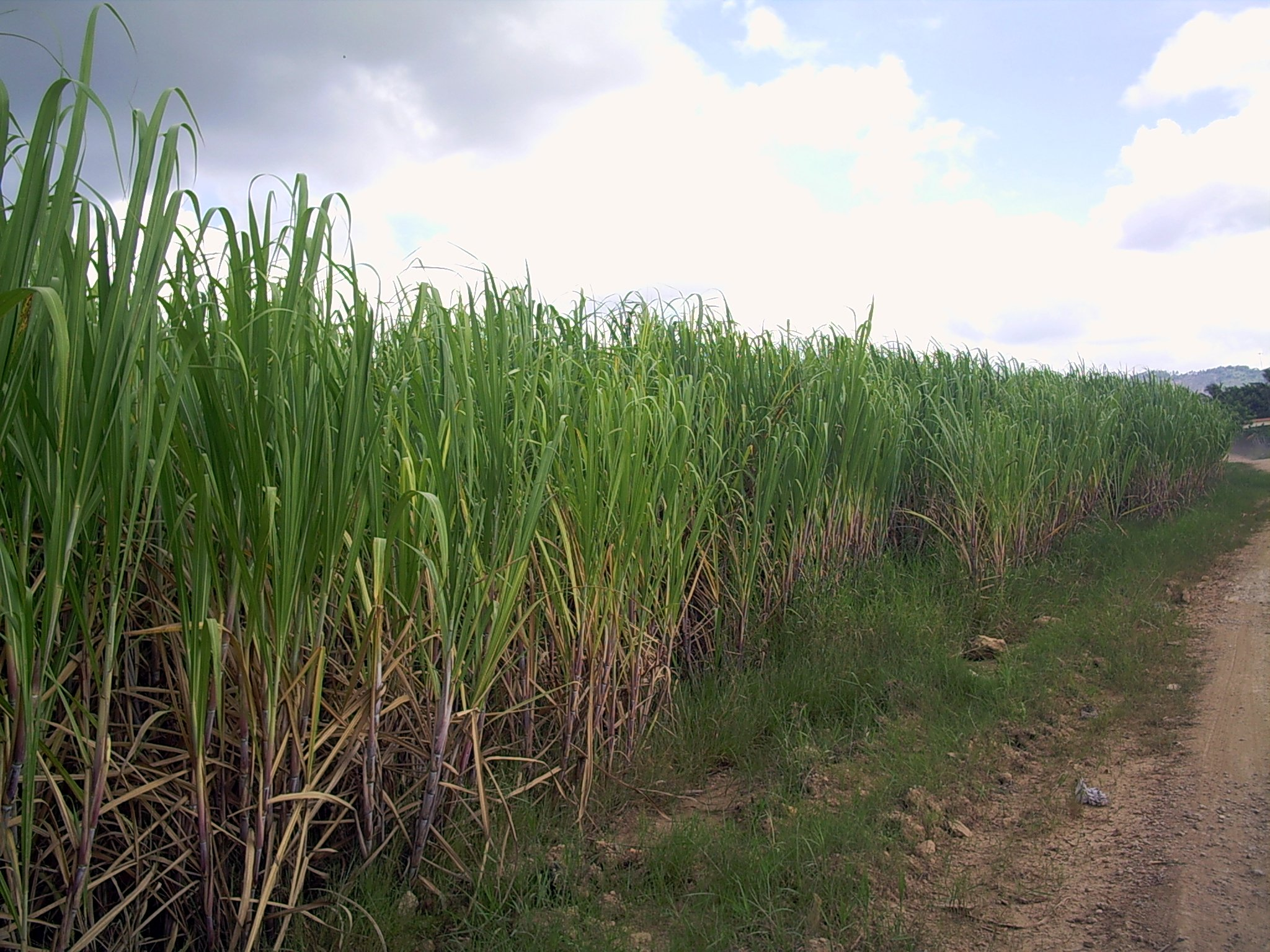 Sugarcane, Higüey, Altagracia, Dominican Republic — part of sugar production in the Caribbean.